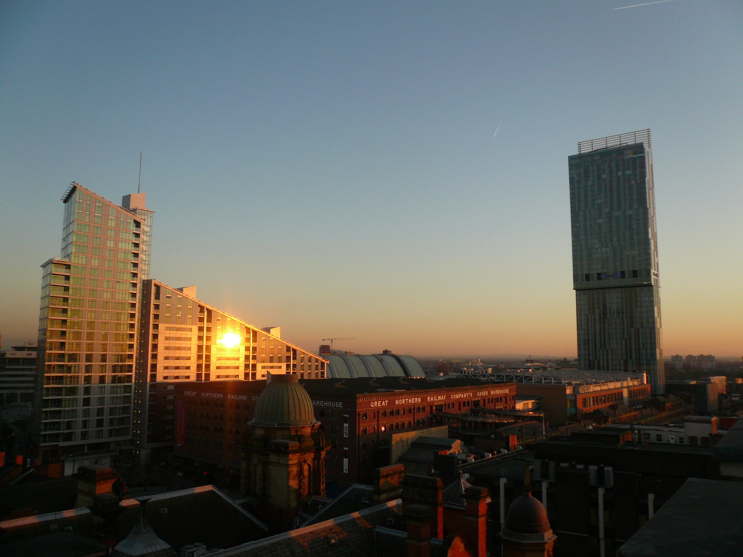 The Great Northn Warehouse, Beetham Tower and the Great Northern Tower, in Manchester City Centre, North West England.